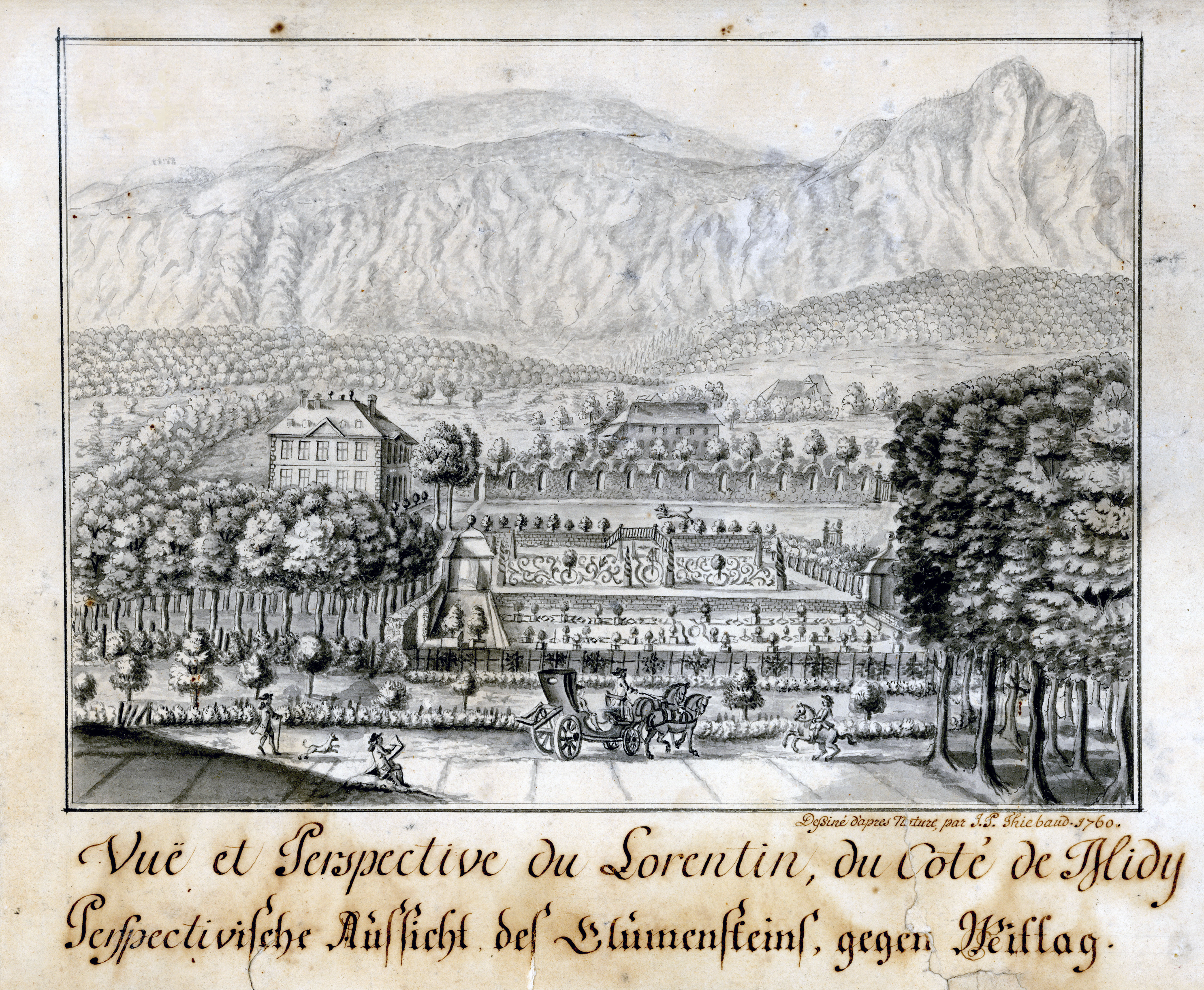 View of the Blumenstein summer residence in Solothurn, Switzerland, by J. P. Thiébaud, 1760.